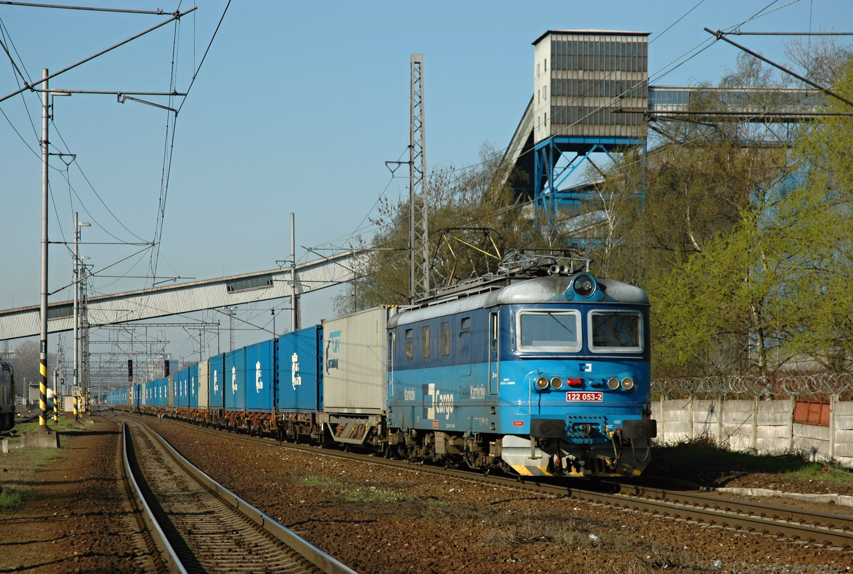 122.053 of ČD Cargo railway operator, train from Mladá Boleslav město to Małaszewicze with cointainers loaded with CKD or SKD Škoda cars for VW plant at Kaluga (Russia); Ostrava hlavní nádraží, the Czech Republic